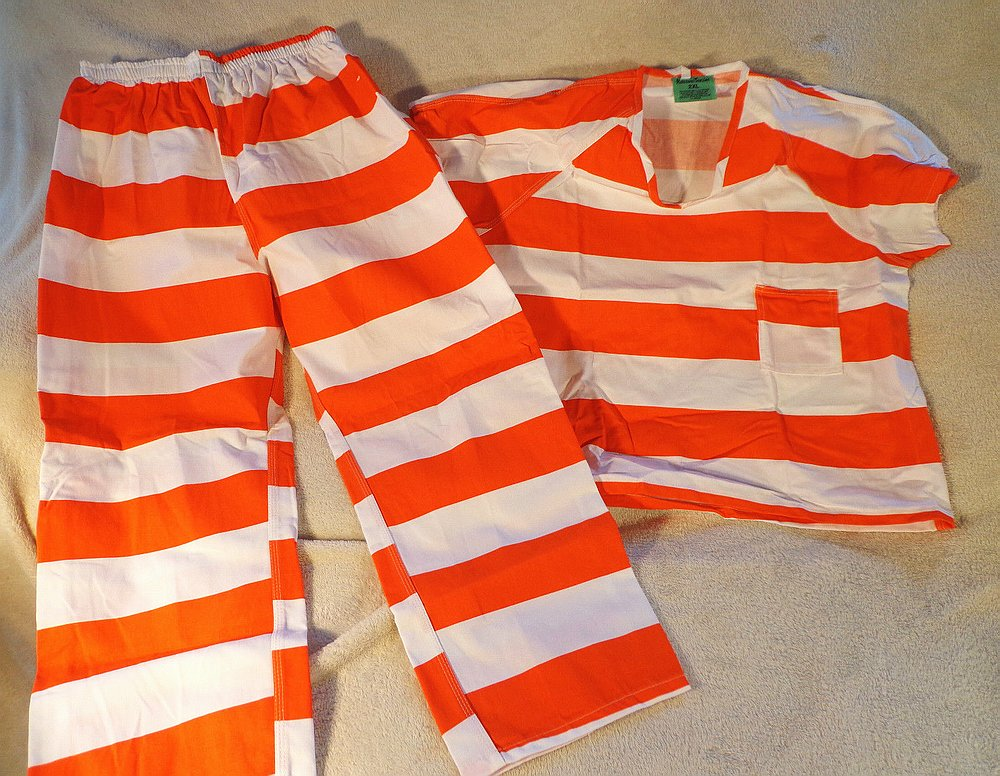 Contemporary orange-white striped prison uniform, United States